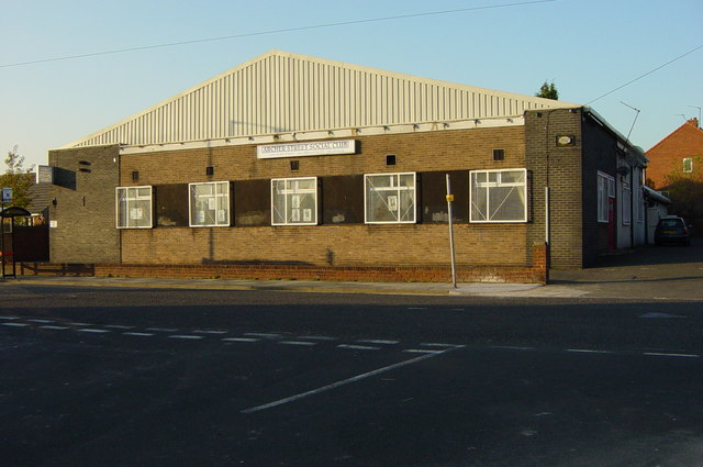 Archer Street Social Club Formerly the British Legion Club